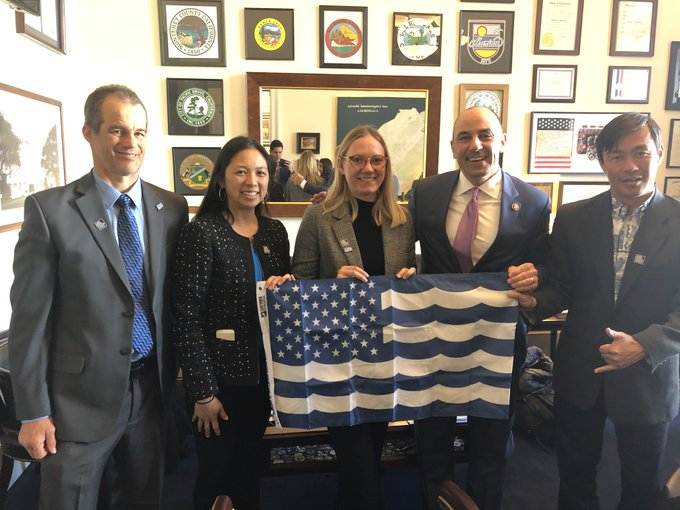 Great to meet with folks from the Central Coast with @Surfrider`. I’ll continue to fight for the Break Free from Plastic Pollution Act, and my bills to cut carbon emissions, stop drilling and fracking on our public lands and in our oceans, and combat climate change